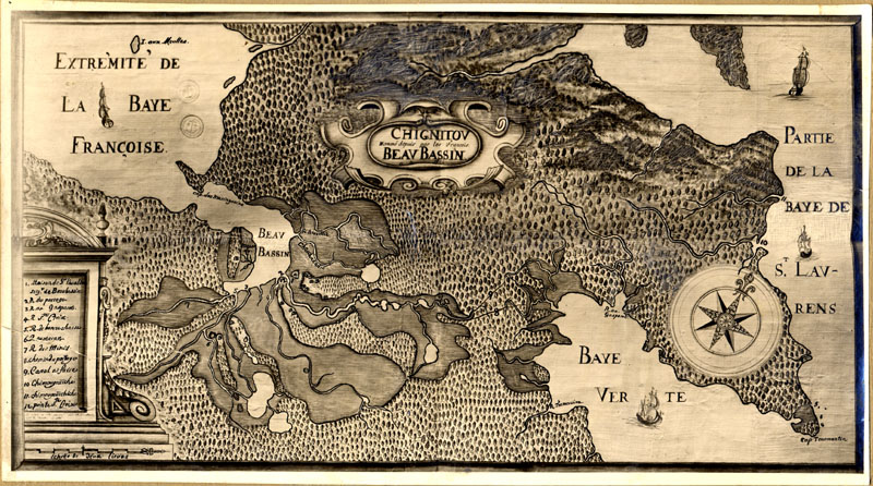 Historic map of the Isthmus of Chignecto, Mount Allison University Archives